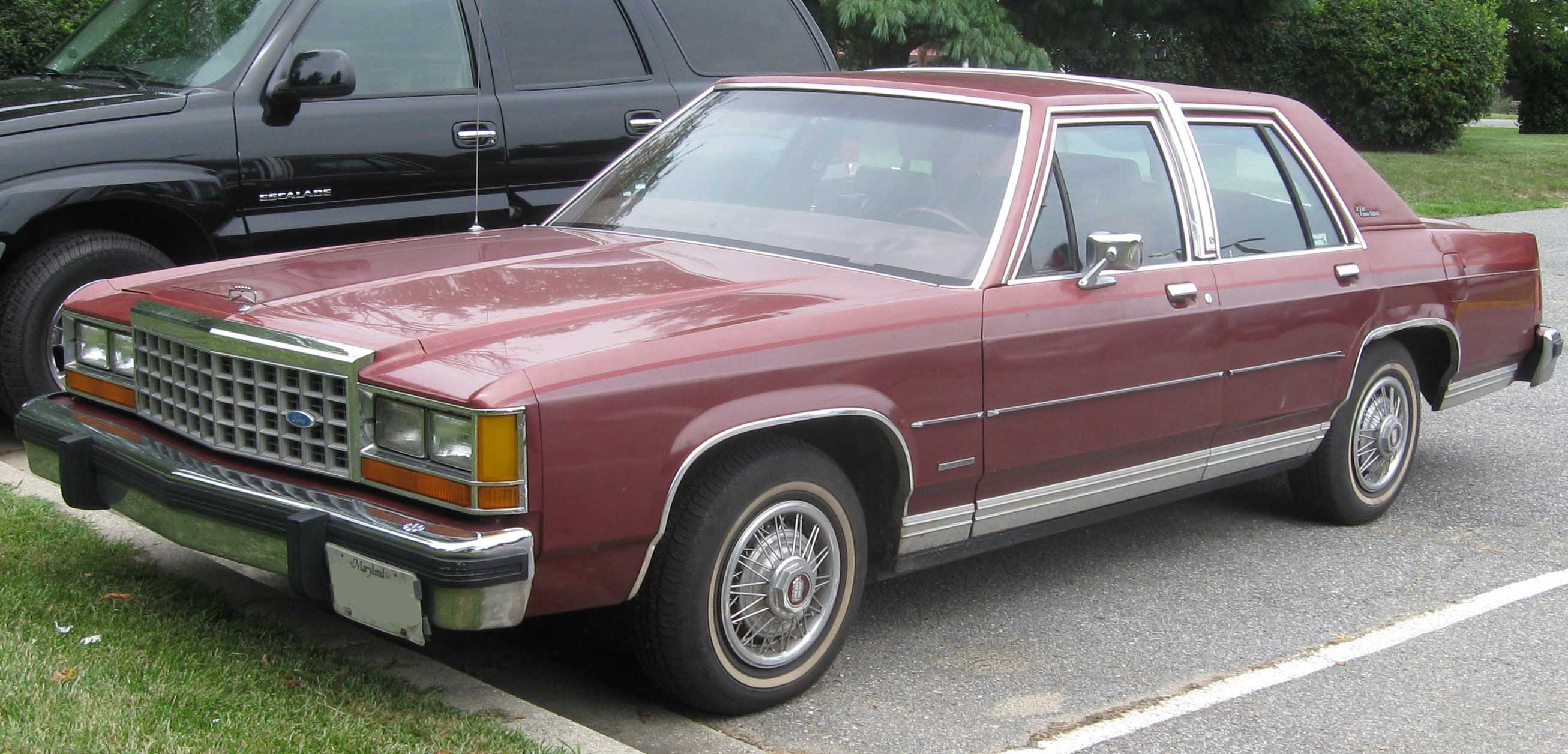 1983-1987 Ford LTD Crown Victoria photographed in Fort Washington, Maryland, USA.